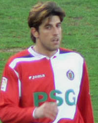 Veljko Paunović wiki photo.